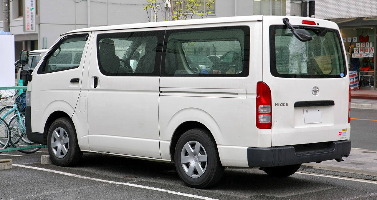 Toyota Hiace Long van standard roof 2.0 DX ( TRH200V )